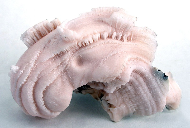 Kutnohorite, Calcite (Var.: Manganoan Calcite) Locality: Wessels Mine (Wessel's Mine), Hotazel, Kalahari manganese fields, Northern Cape Province, South Africa (Locality at ) A beautiful, truly sculptural specimen with finely filigreed crystals of kutnahorite in curving rows and layers twisting upon each other. Extremely dramatic example of this style, as I think the pics convey! Usually this style is labelled simply as kutnahorite, but there is probably some manganocalcite mixed in as well (its a series) in the underlaying , less crystallized platelike layers upon which the finely filigreed crystals rest. 6.6 x 4.4 x 2.6 cm